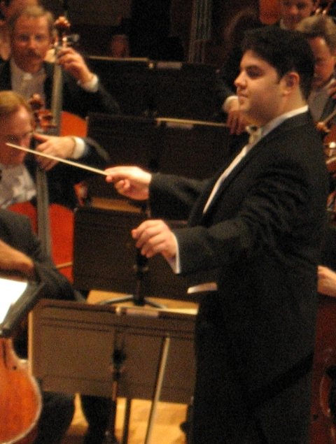 Tito Muñoz conducting the Cincinnati Symphony Orchestra.